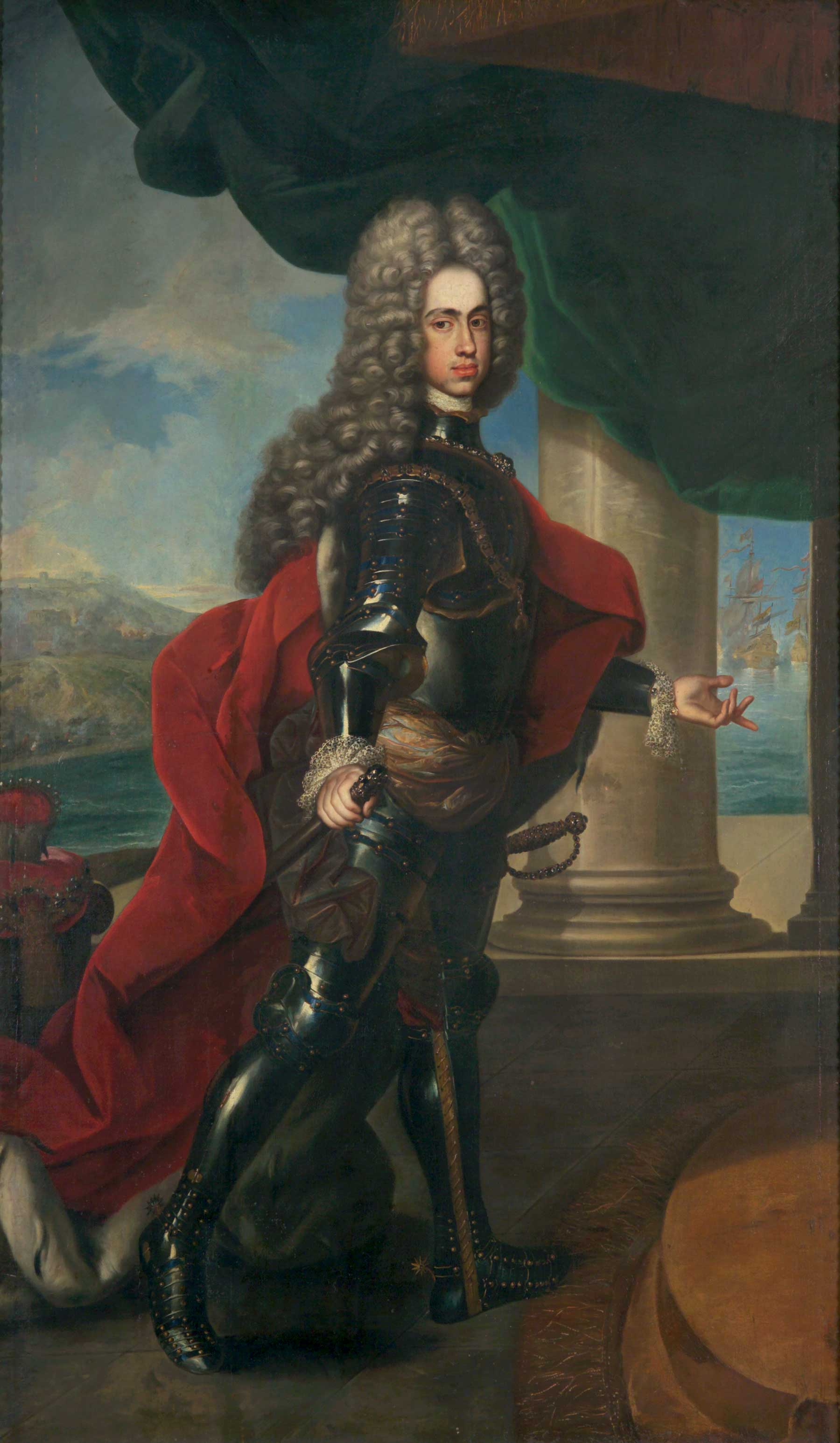 Official Portrait of King Charles III in Barcelona